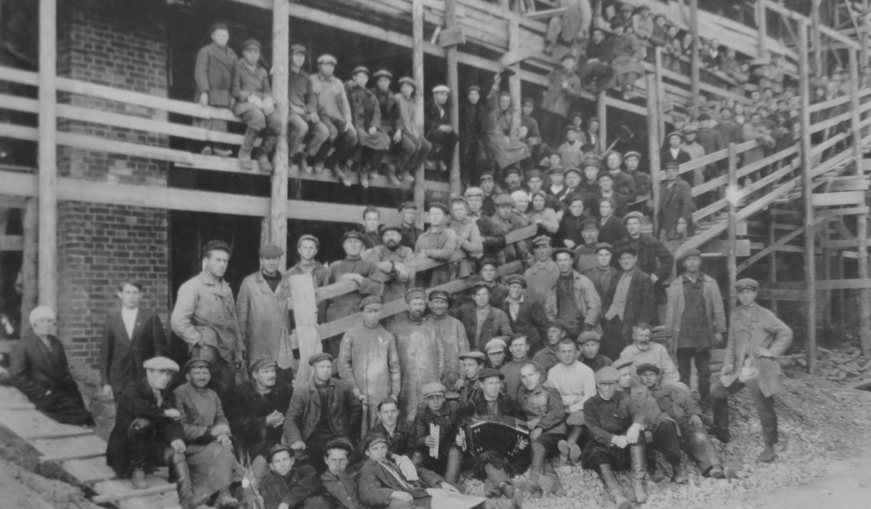 Participents of volunteer shift at the construction of the Yaroslavl Rubber Plant. 29.09.1929.